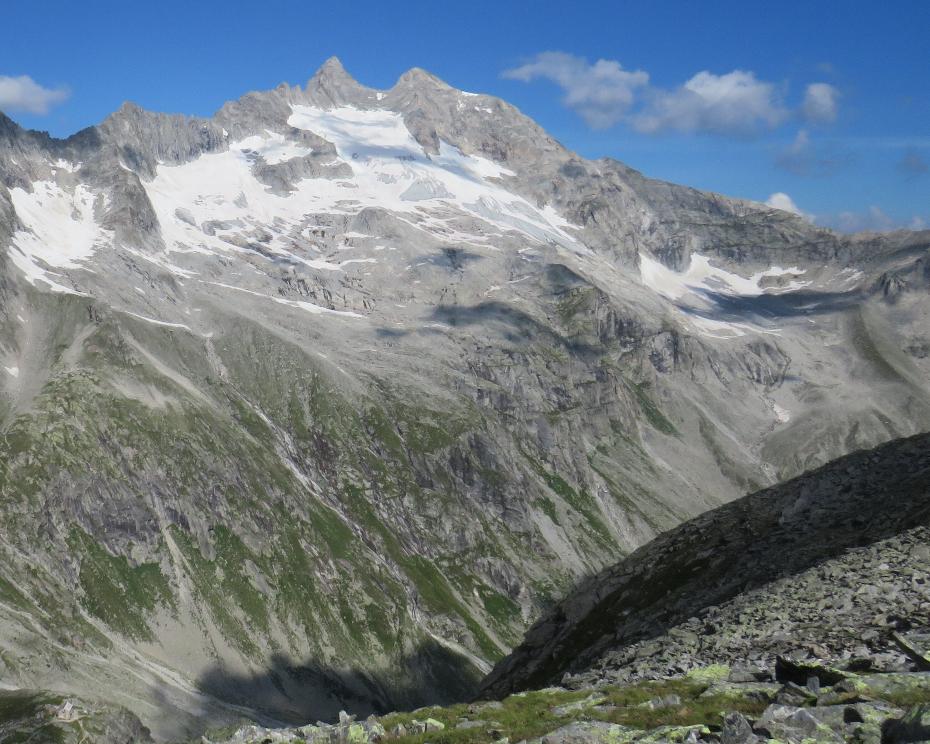 Zillerspitze reichenspitze gabler richterhuette rainbachkees